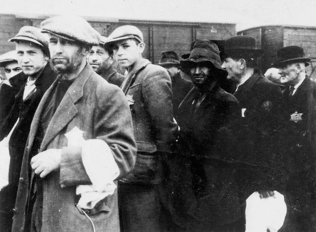 Birkenau, Poland, Men on the platform Photographs documenting the arrival process of Hungarian Jews from the Tet Ghetto in Auschwitz-Birkenau extermination camp during the second half of 1944.